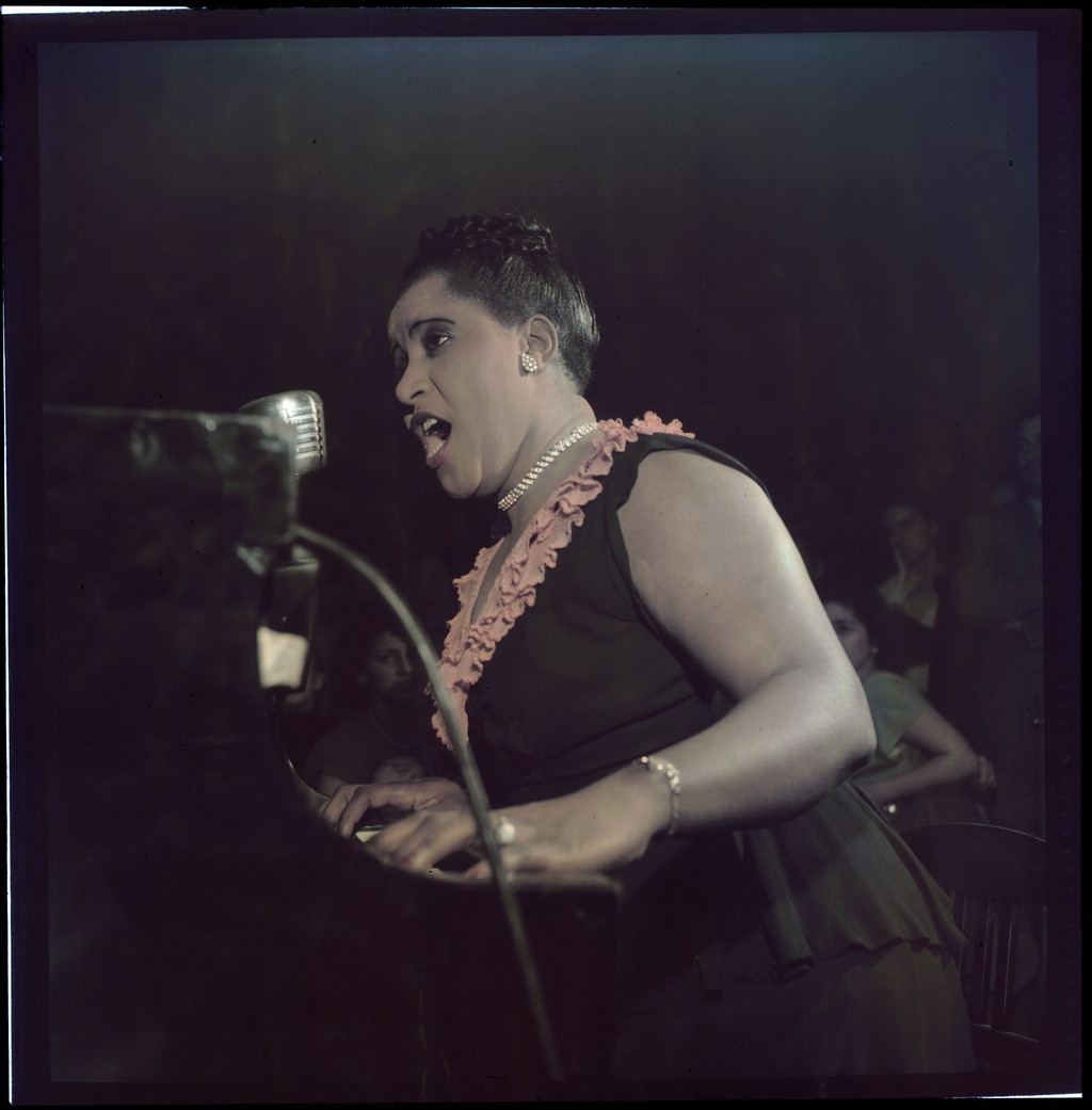 Gottlieb, William P., 1917-, photographer. [Portrait of Nellie Lutcher, New York, N.Y., between 1946 and 1948] 1 transparency : film, color. ; 2 1/4 x 2 1/4 in. Notes: Gottlieb Collection Assignment No. 208 Purchase William P. Gottlieb Forms part of: William P. Gottlieb Collection (Library of Congress). Subjects: Lutcher, Nellie Women jazz musicians--1940-1950. Jazz singers--1940-1950. Format: Portrait photographs--1940-1950. Film transparencies--1940-1950. Rights Info: Mr. Gottlieb has dedicated these works to the public domain, but rights of privacy and publicity may apply. Repository: (transparency) Library of Congress, Prints & Photographs Division, Washington D.C. 20540 USA, Part Of: William P. Gottlieb Collection (DLC) 99-401005 General information about the Gottlieb Collection is available at Persistent URL: Call Number: LC-GLB04- 1364 This work is from the William P. Gottlieb collection at the Library of Congress. Rights and restrictions.In accordance with the wishes of William Gottlieb, the photographs in this collection entered into the public domain on February 16, 2010.